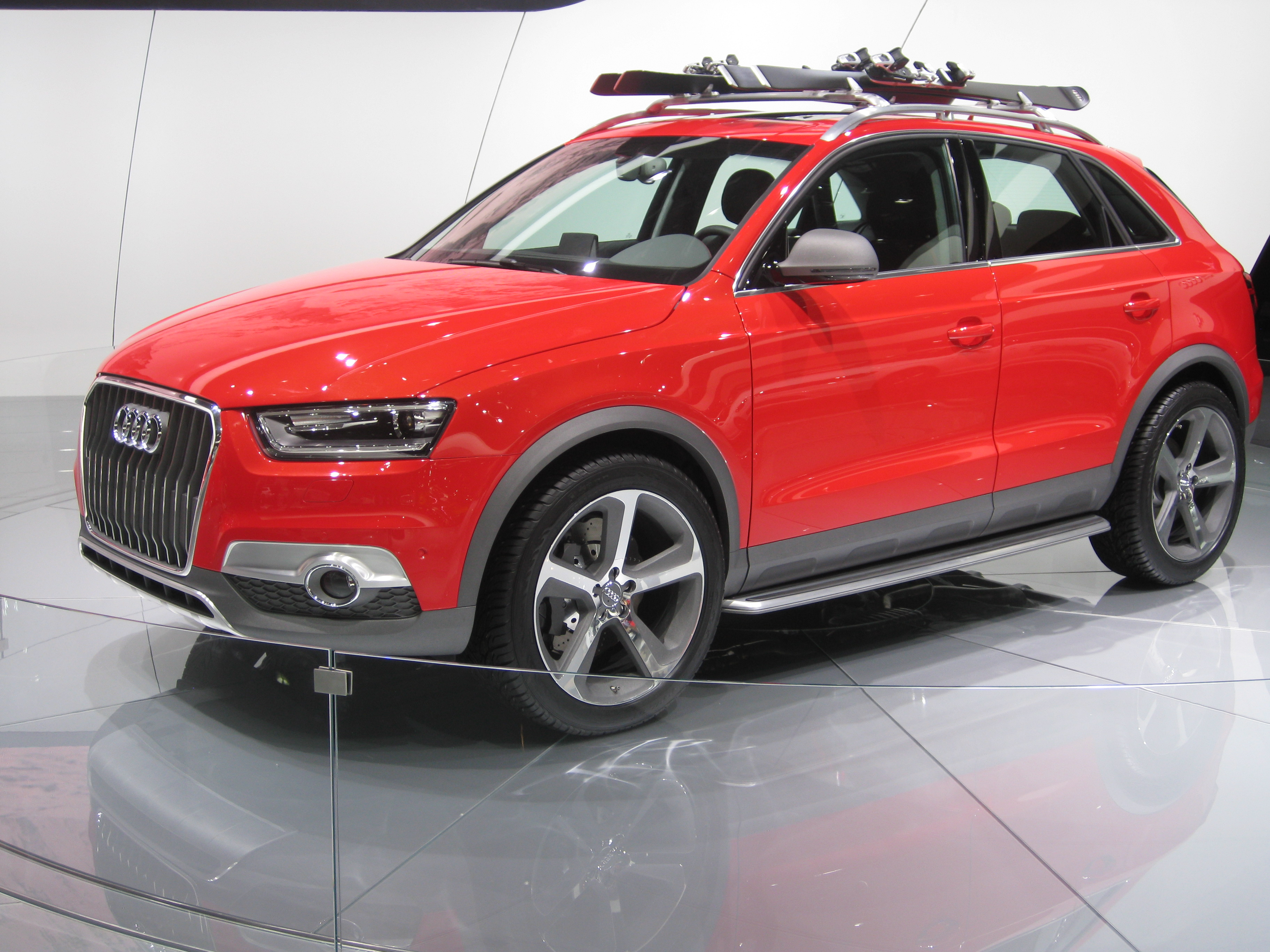 For more info and images please check